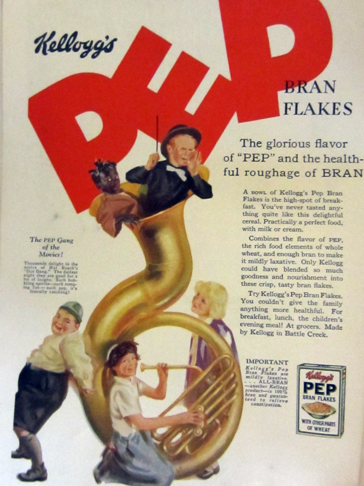 Kelloggs PEP cereal ad featuring LITTLE RASCALS